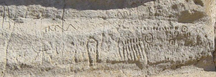 Petroglyphs on Petroglyph Point, Lava Beds National Monument.